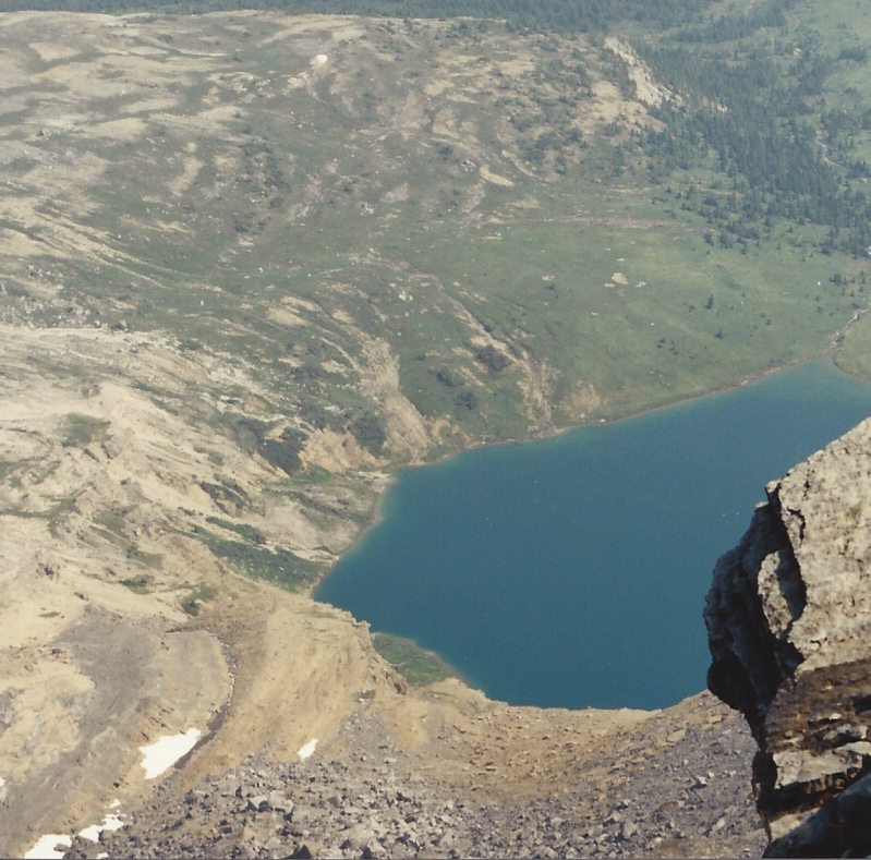 Hidden Lake, Banff National Park, Alberta, Canada View from Mount Richardson